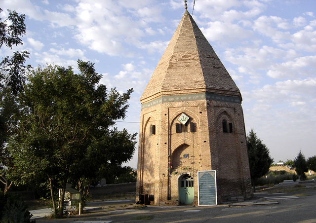 The tomb of Sultan Mutahhar near Roudehen